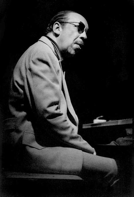 Pianist Red Garland @ jazz club Keystone Korner, SF, CA May 1978 (or 77) Photo by: Brian McMillen /